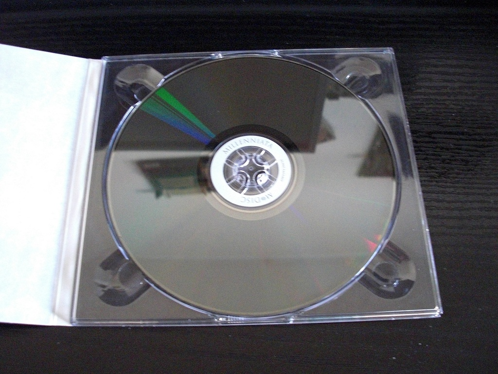 Image of a M-DISC